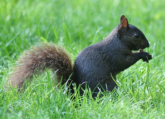 A Sciuridae